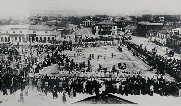 Uspen park creation, Luhansk, 1900